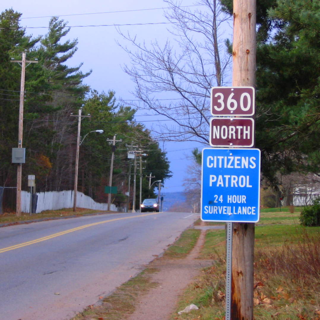 Photo of highway sign. Self made. Cropped